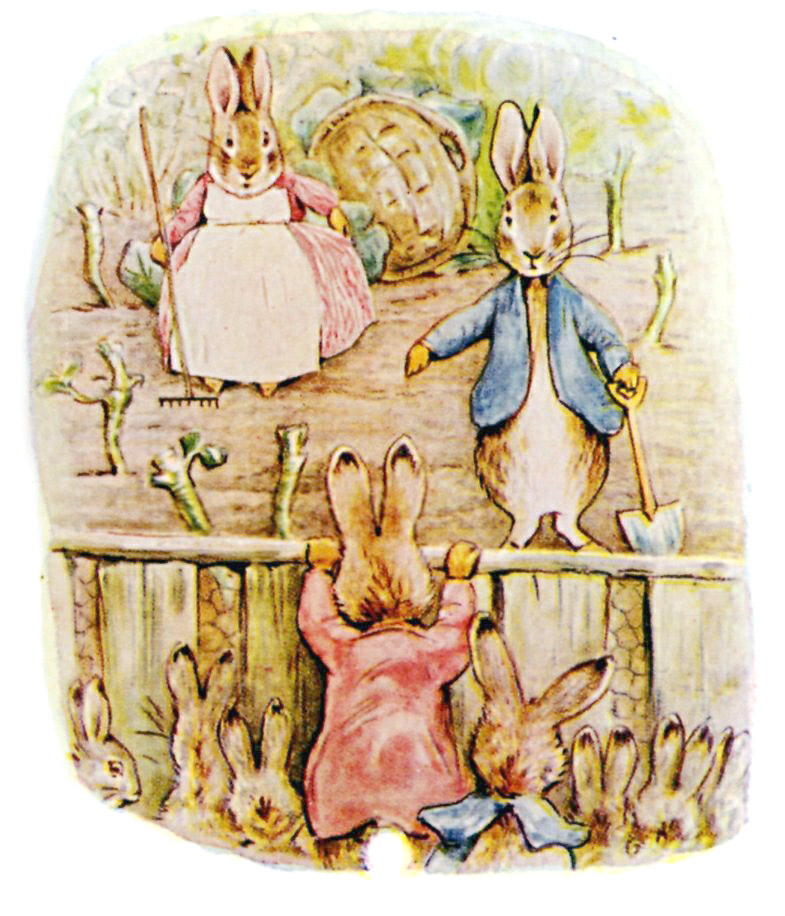 Illustration of Peter Rabbit from The Tale of the Flopsy Bunnies